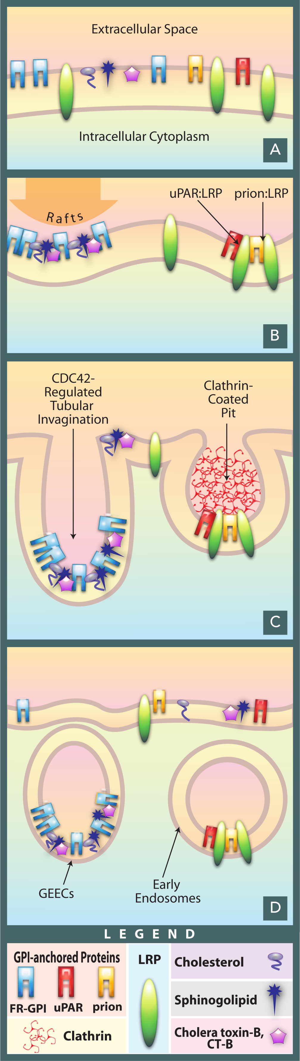 Schematic visualization of endocytic routes adopted by various GPI-Anchored proteins and other endocytic markers. A) Various membrane resident proteins and lipids like FR-GPI, prions, LRP, uPAR, cholesterol, sphingolipids and cholera-toxin bound to GM1 are present in a diffuse distribution in the plasma membrane. B) GPI-APs like FR-GPI align with cholesterol and sphingolipids to form lateral aggregates termed as rafts. uPAR and prion proteins, although GPI-anchored, interact with LRP and are endocytosed into the clathrin-coated pits. The interaction of the protein domains of uPAR and Prion with LRP seems to override the influence of the lateral segregation into rafts mediated by the GPI-anchor of these proteins. LRP has signal sequences in the cytoplasmic domain for recruitment into clathrin-coated pits. C and D) Raft-included markers like FR-GPI and cholera toxin bound to GM1 are endocytosed into GEECs whereas uPAR:LRP and prion;LRP complexes are endocytosed into vacuoles derived from clathrin-coated pits. Lakhan et al. Journal of Biomedical Science 2009 16:93